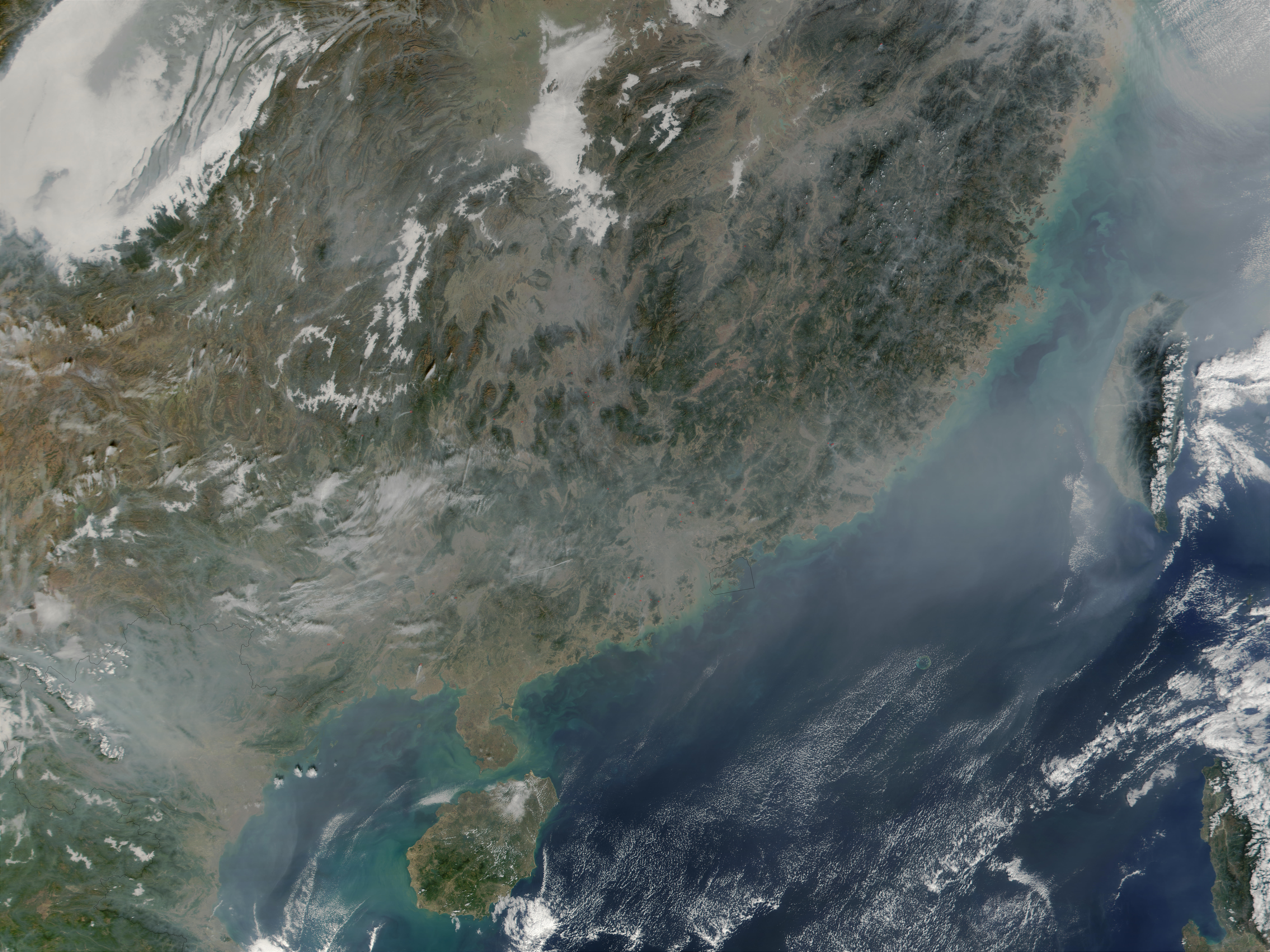 Fires and pollution in southern China and Vietnam. Most of southeastern China has been covered by a thick greyish shroud of aerosol pollution over the last few weeks. The smog is so thick it is difficult to see the surface in some regions of this scene, acquired on January 7, 2002. The city of Hong Kong is the large brown cluster of pixels toward the lower lefthand corner of the image (indicated by the faint black box). The island of Taiwan, due east of mainland China, is also blanketed by the smog. This true-color image was captured by the Moderate-resolution Imaging Spectroradiometer (MODIS) sensor, flying aboard NASA’s Terra satellite.